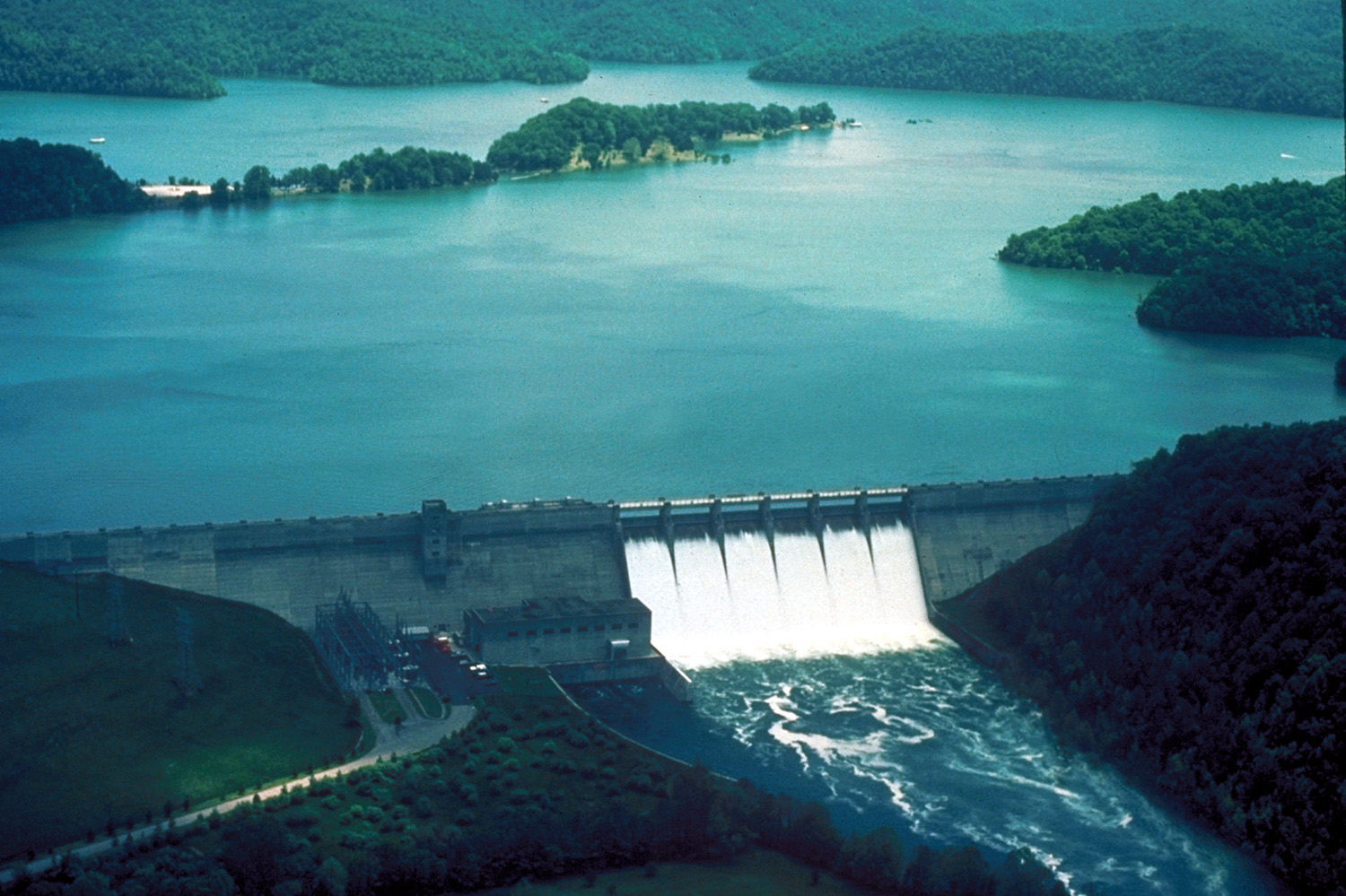 Dale Hollow Dam and Lake on the Obey River in Clay County near Celina, Tennessee, USA. The dam provides flood control and has a 54-MW hydroelectric power plant. View is upriver to the east-southeast.